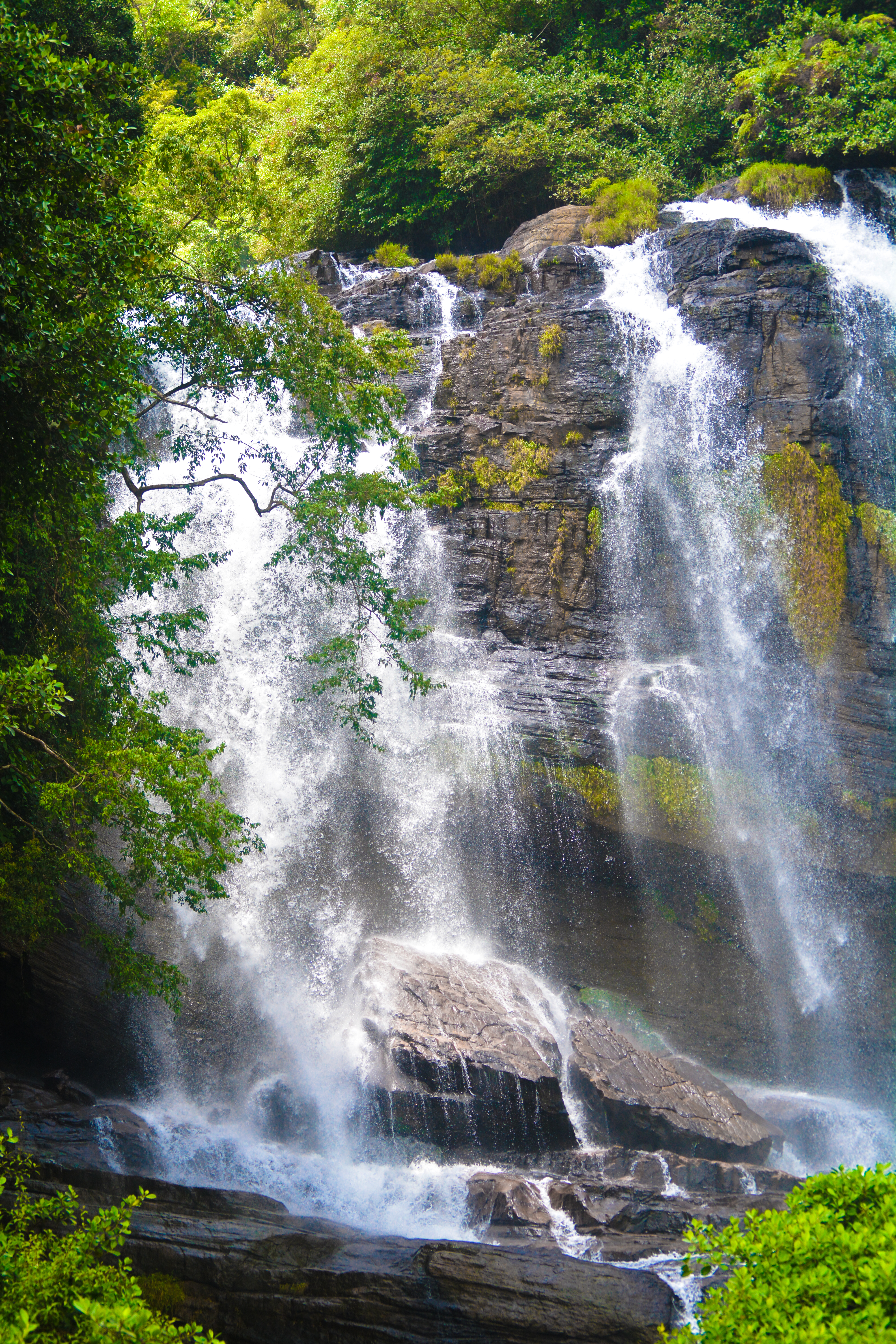 Hill Country of Sri Lanka is well known for the warerfalls it has. Galboda Falls is one of them and it has its own unique beauty and location. Galboda is located near Nawalapitiya of Central Province.